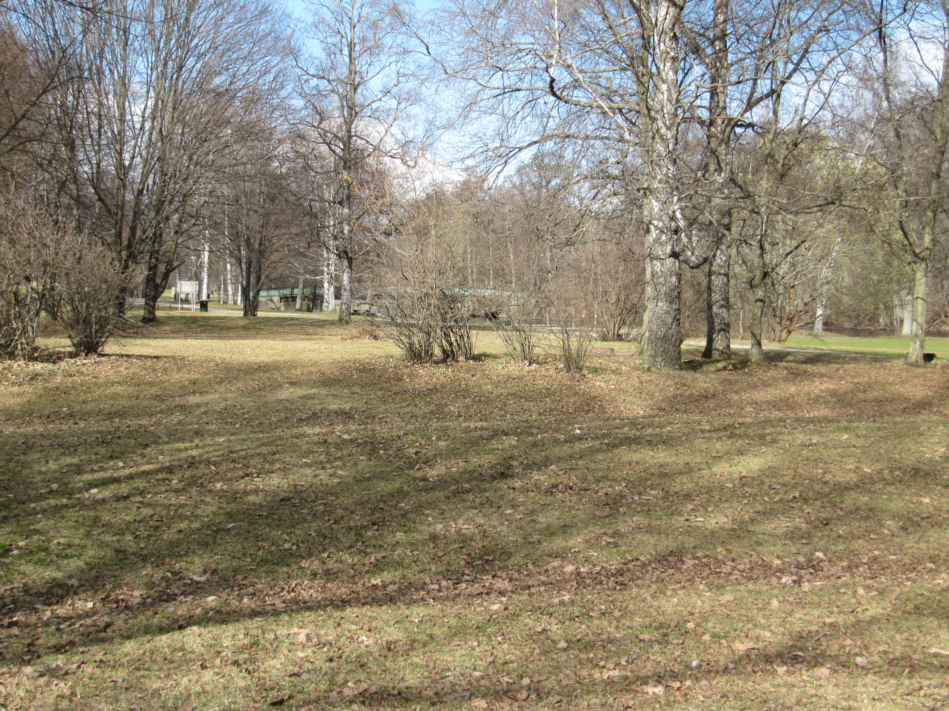 Old acres at Hästhagen, Örebro, Sweden